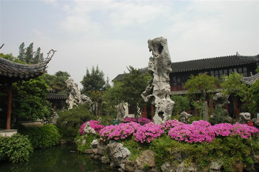 Classical Gardens of Suzhou: The Lingering Garden